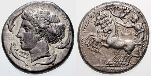 Sicilia, Syracusae. Circa 415-405 BC. Obverse die signed by Eumenos, reverse die signed by Eukleidas. AR Tetradrachm (17.16 g). Charioteer driving galloping quadriga left, holding kentron in right hand, reins in left; Nike flying above crowning charioteer; in exergue ΕΥΜΗΝΟΥ (engraver sign) SURAKOSIOS, head of Arethusa left, wearing looped earring and necklace, surrounded by four dolphins swimming; ΕΥΚΛ / ΕΙΔΑ inscribed on tablet below chin (engraver sign).